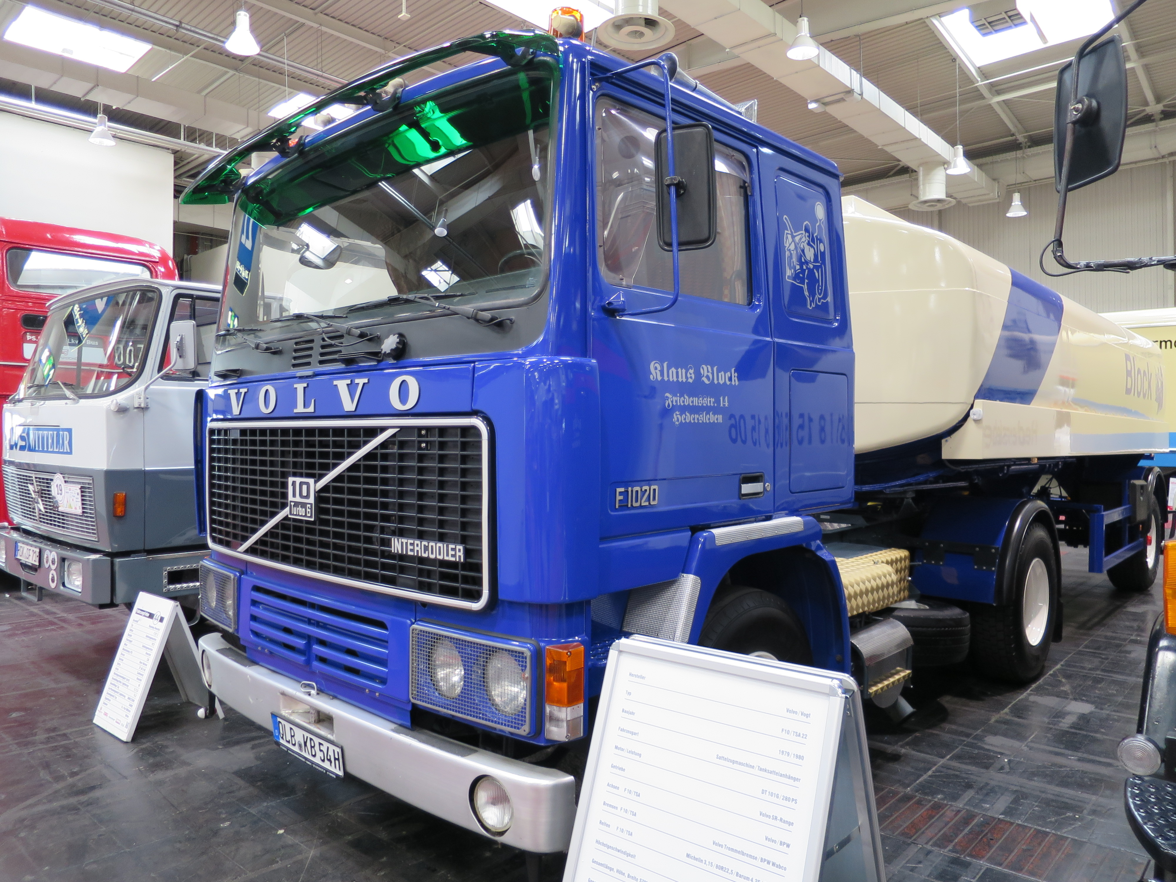 The making of this document was supported by Wikimedia Polska Association, within Wikigrant no. WG 2016-35. VOLVO F10 - 1979